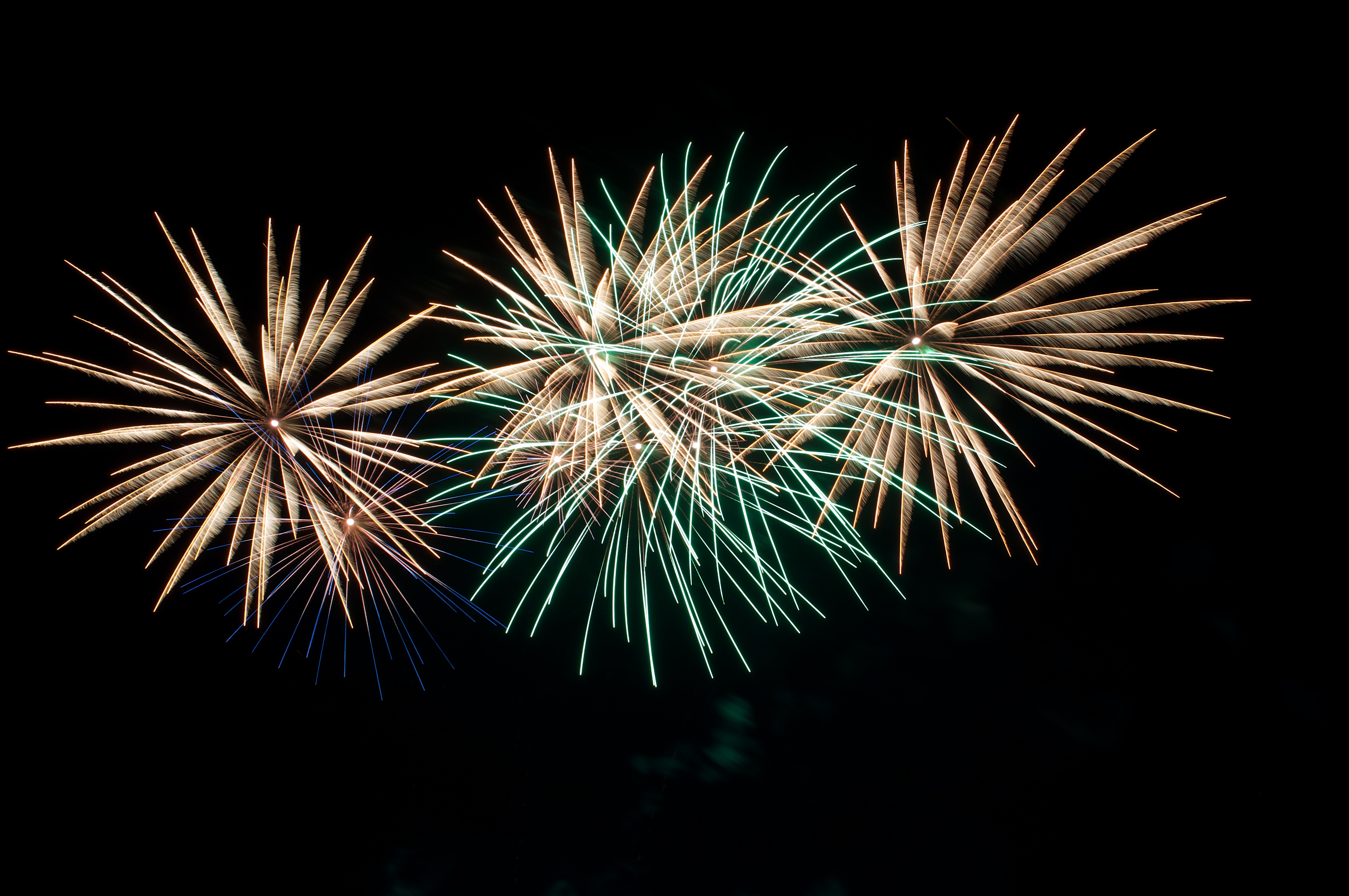 Press 'L' to see it in the light-box for best effect.